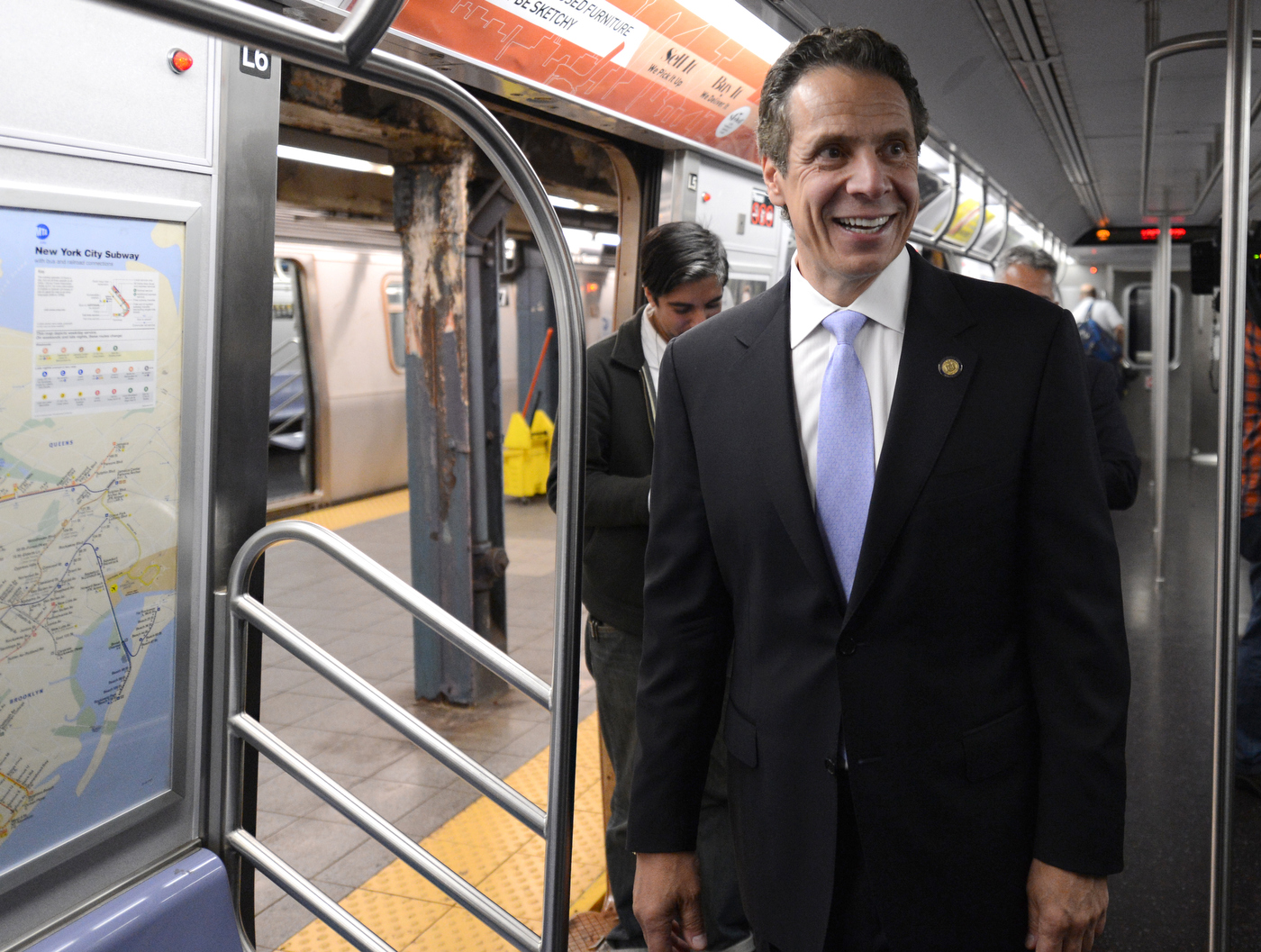 New York Governor Andrew M. Cuomo and MTA Chairman and CEO Thomas Prendergast rode an E train from Chambers St. to 34 St.-Penn Station on Thu., September 25, 2014 to assure New Yorkers that all security precautions are being taken, and that the subway system is safe amid reports of unspecified threats. Photo: Marc A. Hermann / MTA New York City Transit